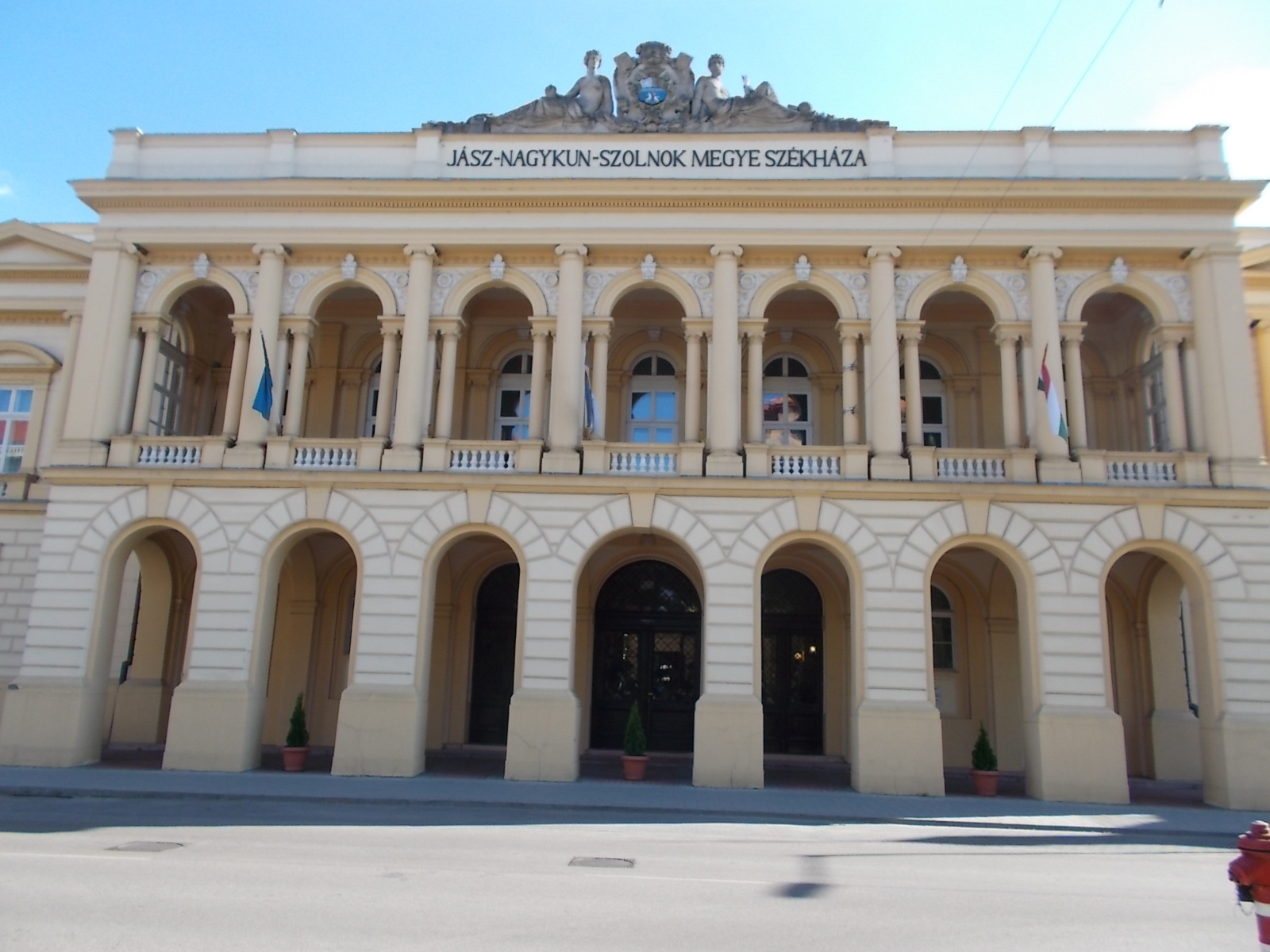 Jász-Nagykun-Szolnok County Hall. - Kossuth Lajos út, Szolnok, Jász-Nagykun-Szolnok County, Hungary.